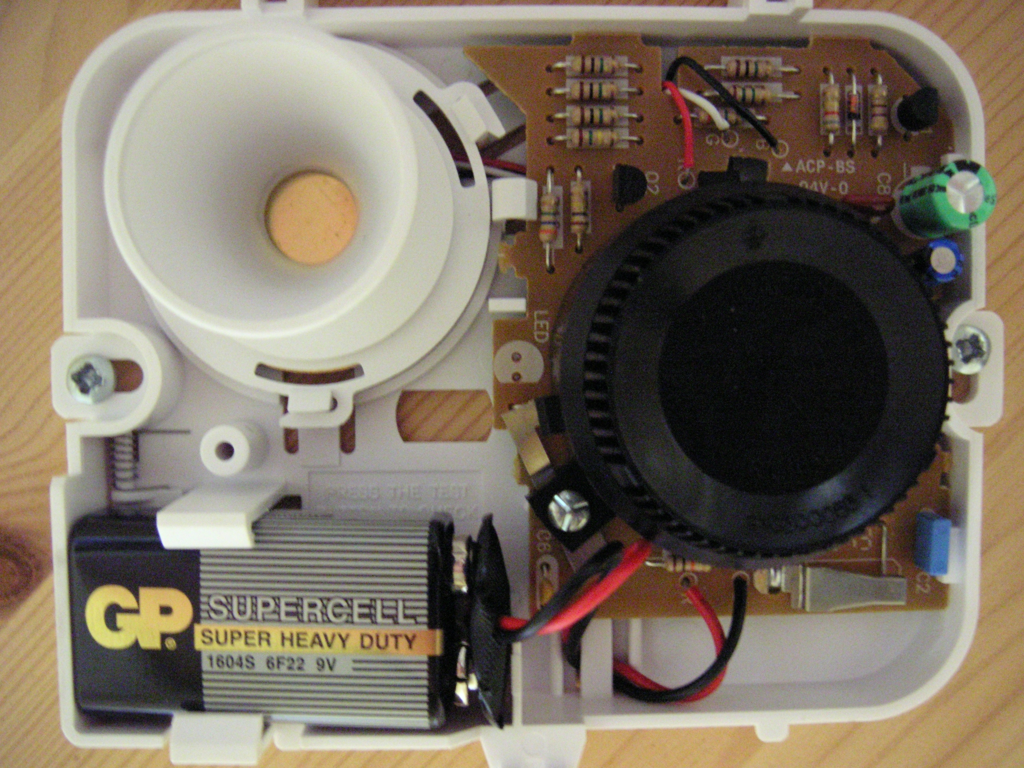 A basic ionization smoke alarm by Ei Electronics.